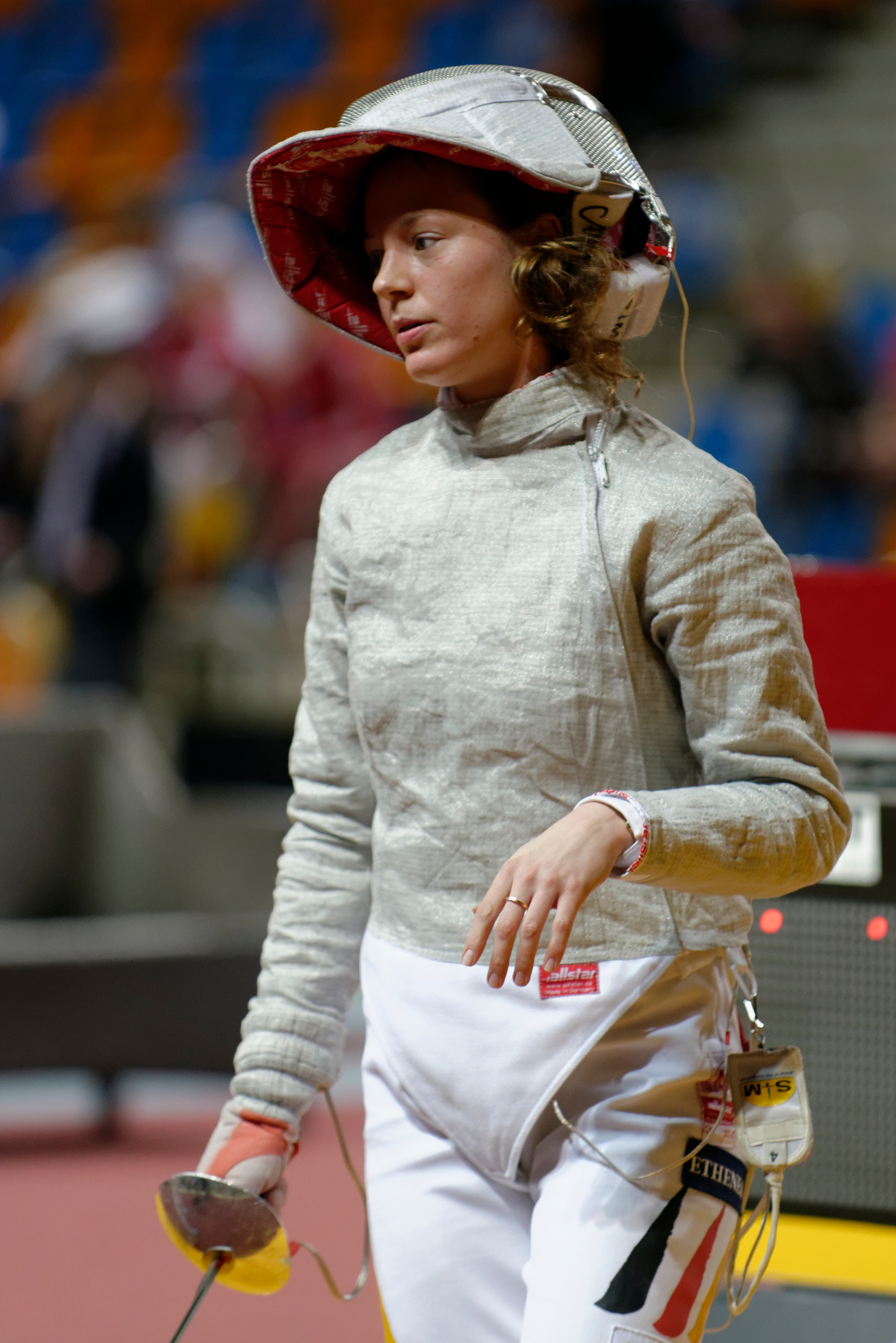 Germany's Anna Limbach during her T16 bout against Olha Kharlan of Ukraine at the Trophée BNP Paribas-Grand Prix FIE, first stage of the women's sabre World Cup, in Orléans.